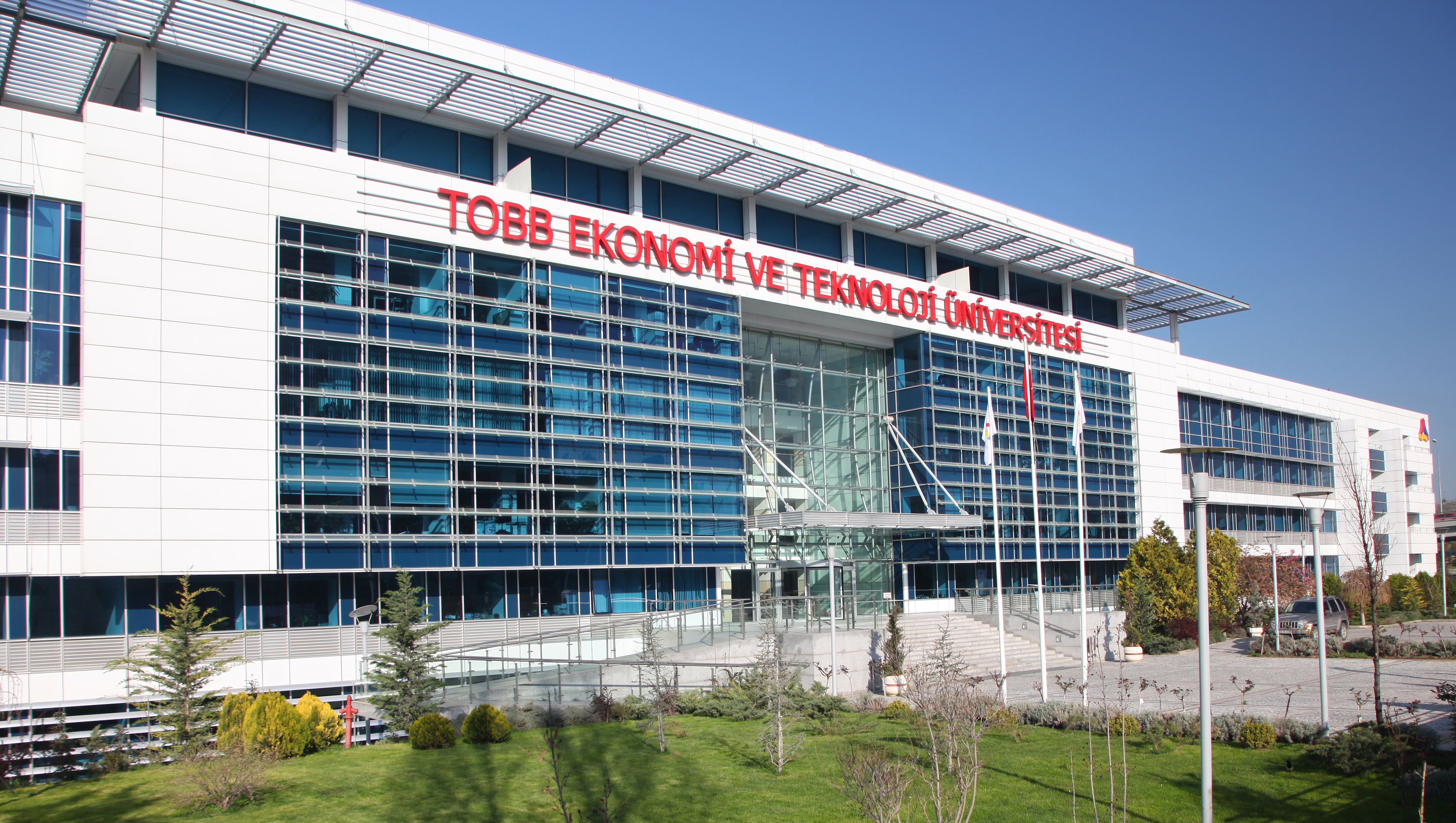 TOBB University of Economics & Technology